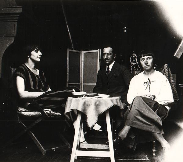 Nelly van Doesburg, Piet Mondrian and Hanna Höch in the studio of Theo van Doesburg. photograph. Dimensions unknown. Berlin, Landesmuseum für Kunst, Fotografie und Architectur, Berlinische Galerie, Hannah Höch Archive. RKDimages, Art-work number 200294.